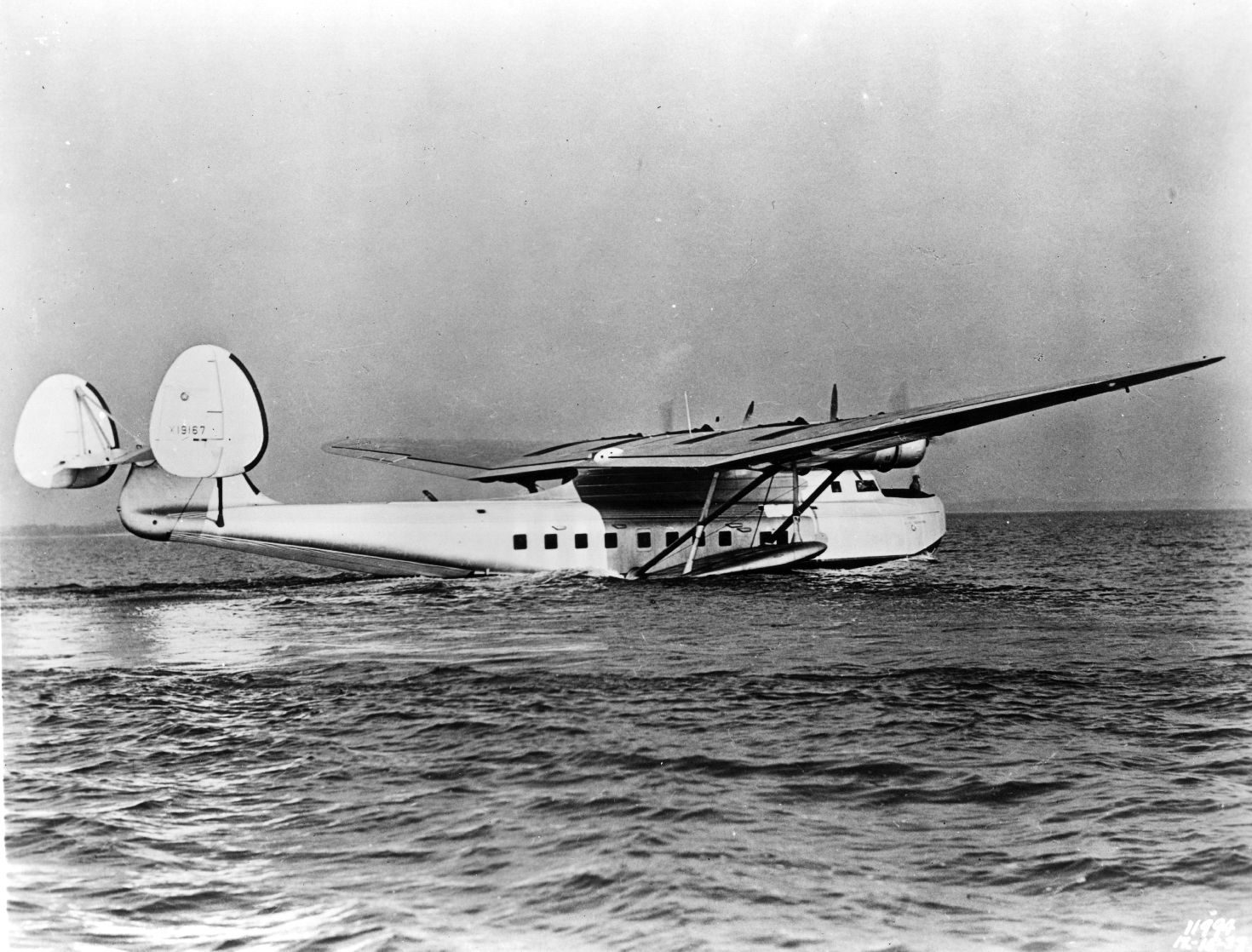 The Martin 156 "Russian Clipper", NX19167, taxies for takeoff.